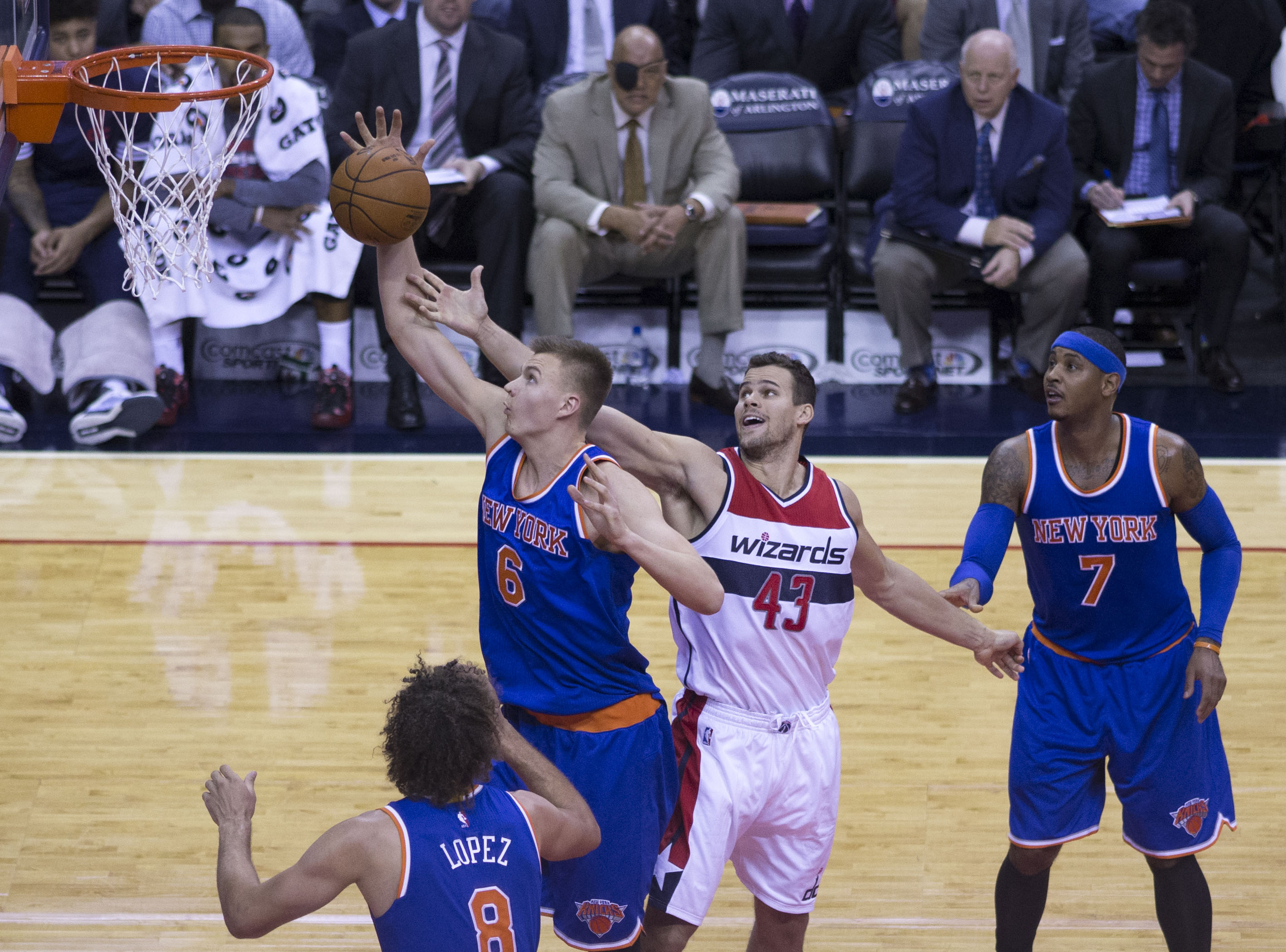 Kristaps Porziņģis of the New York Knicks against Kris Humphries of the Washington Wizards